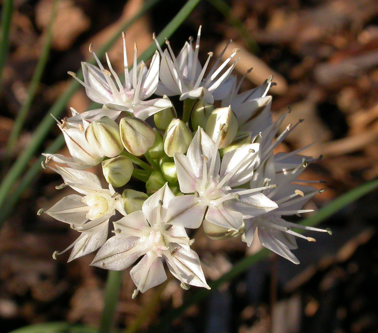 Allium haematochiton Photographed at : BioTrek, California. Allium haematochiton Contributed and © by Curtis Clark. Licensed as noted.